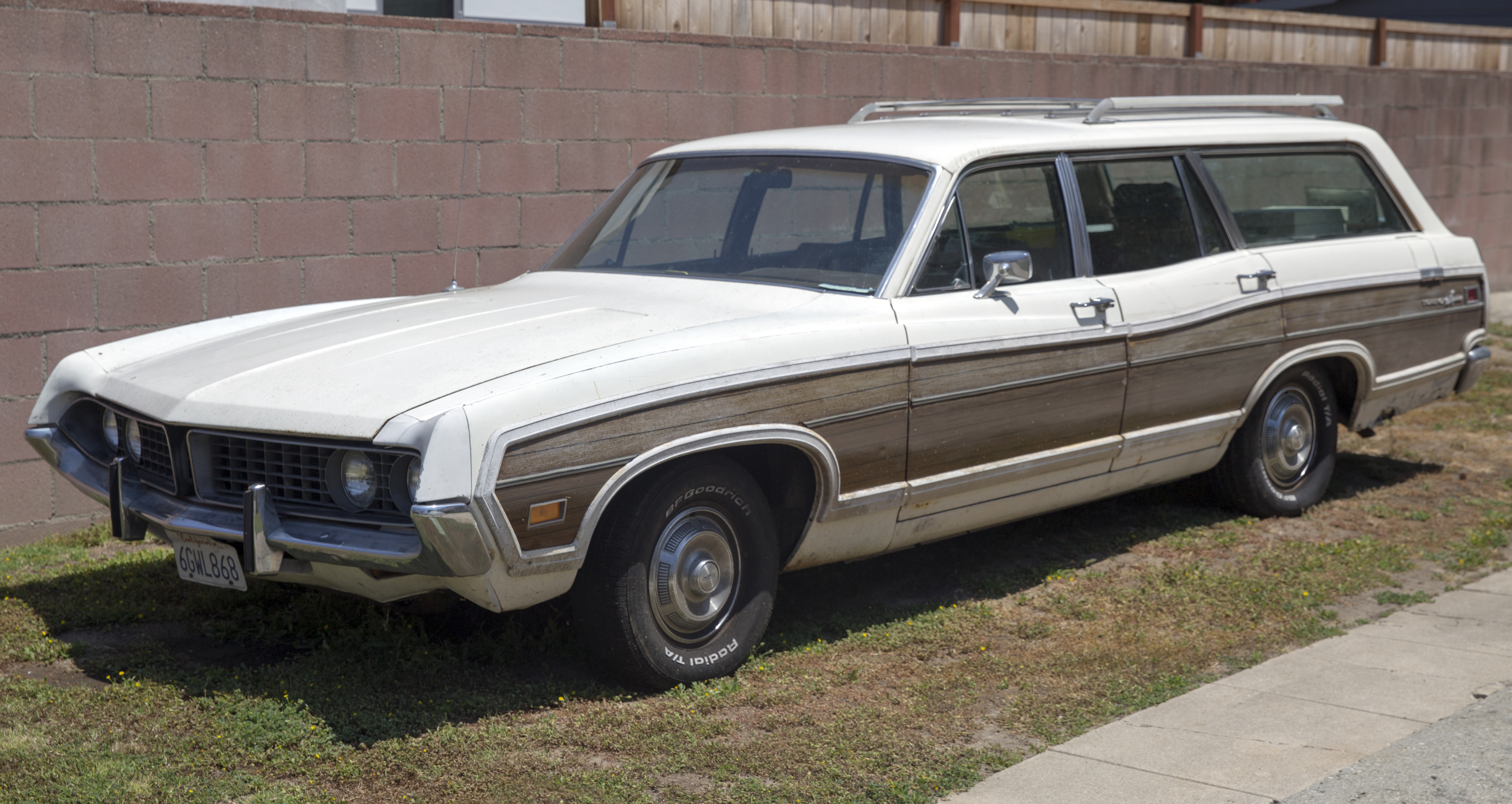 A 1971 Ford Torino Squire station wagon in LA's Silver Lake neighborhood. A bit faded, but still pretty cool.